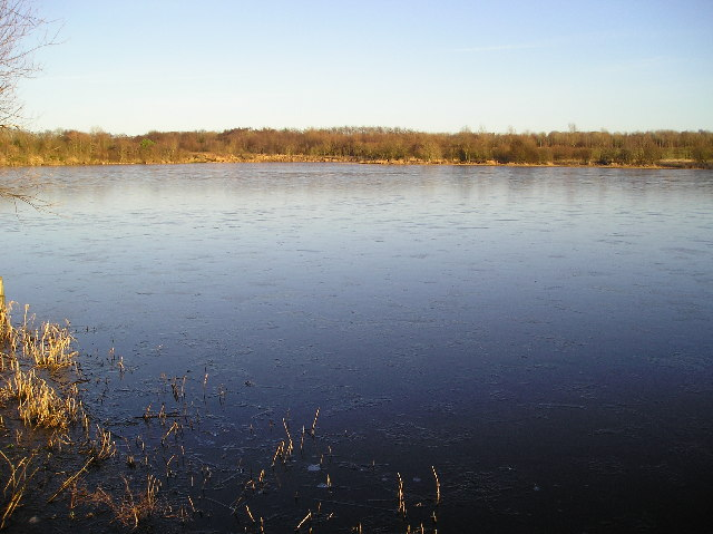 Loch. Fishing Loch in Eglinton Country Park.